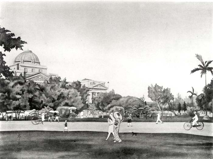 Seen from Taipei New Park / Siaoshan Bulao / 1931 / Selected by the Fifth Art Exhibition of Taiwan-Government-in-General.